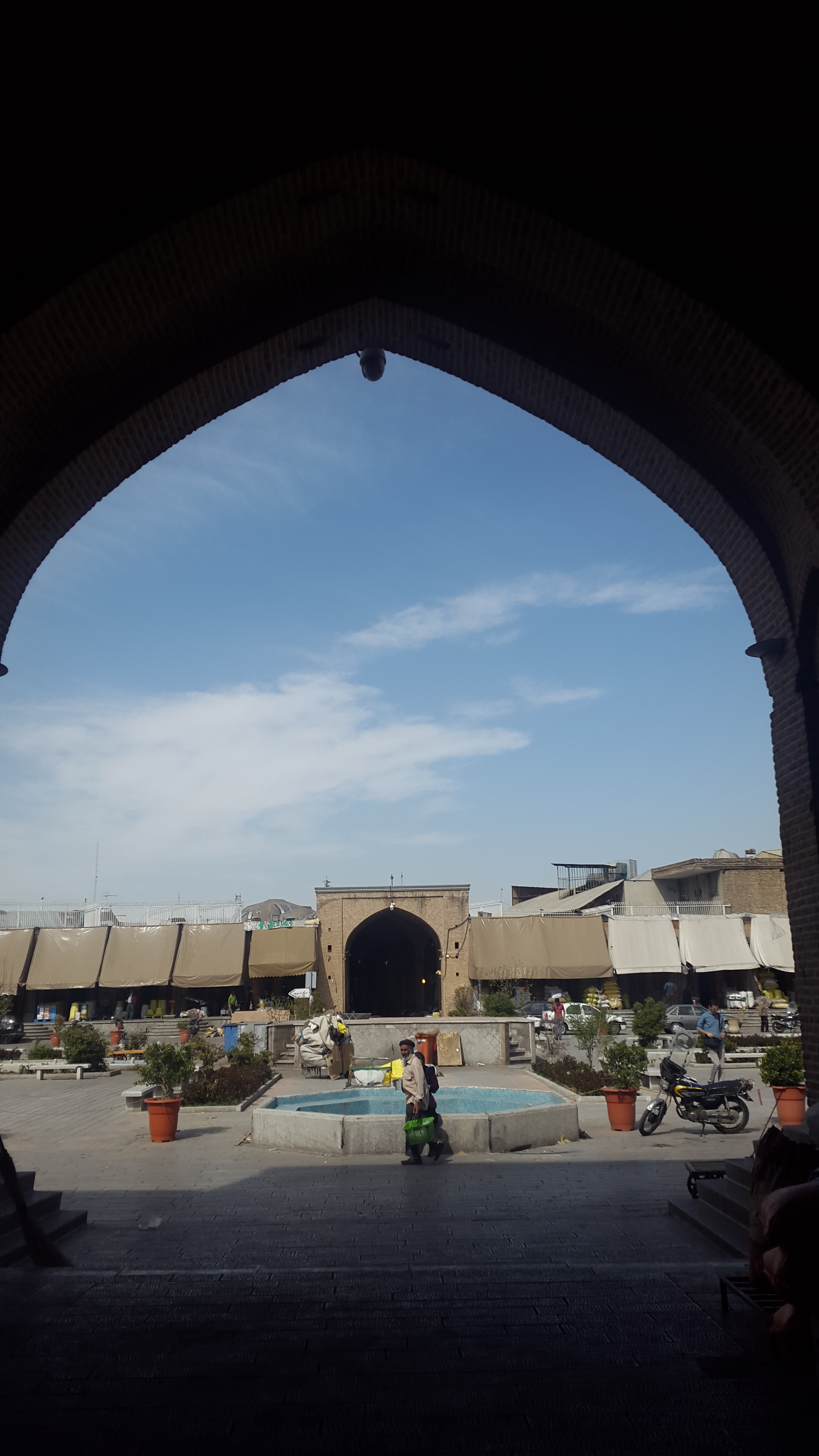 khanat caravansary